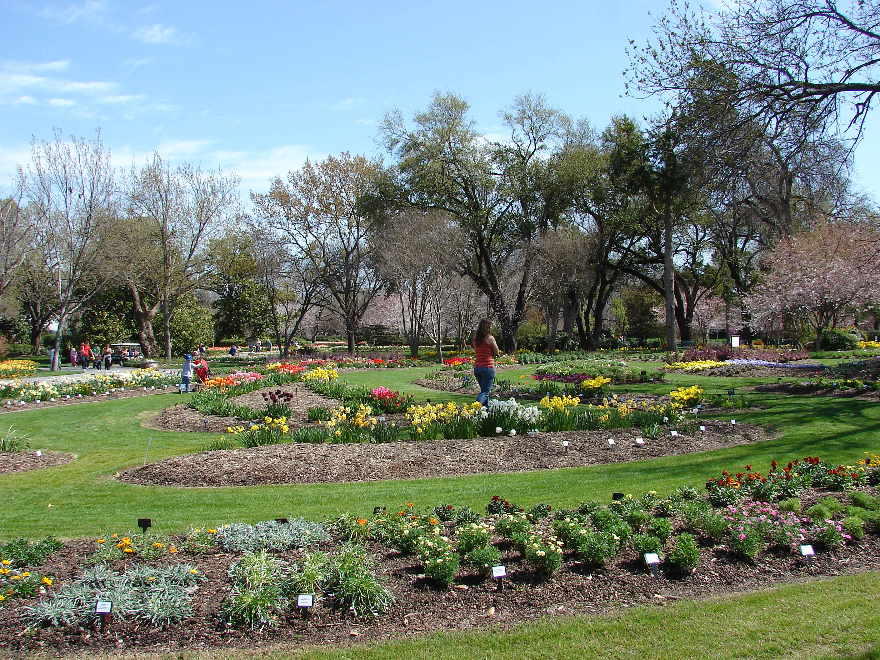 Flower beds at the Dallas Arboretum and Botanical Garden (Dallas, Texas).